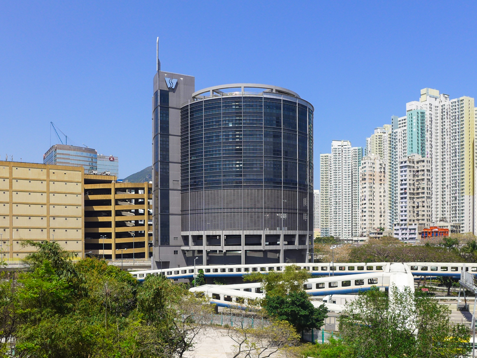 WSD Kowloon East Regional Building